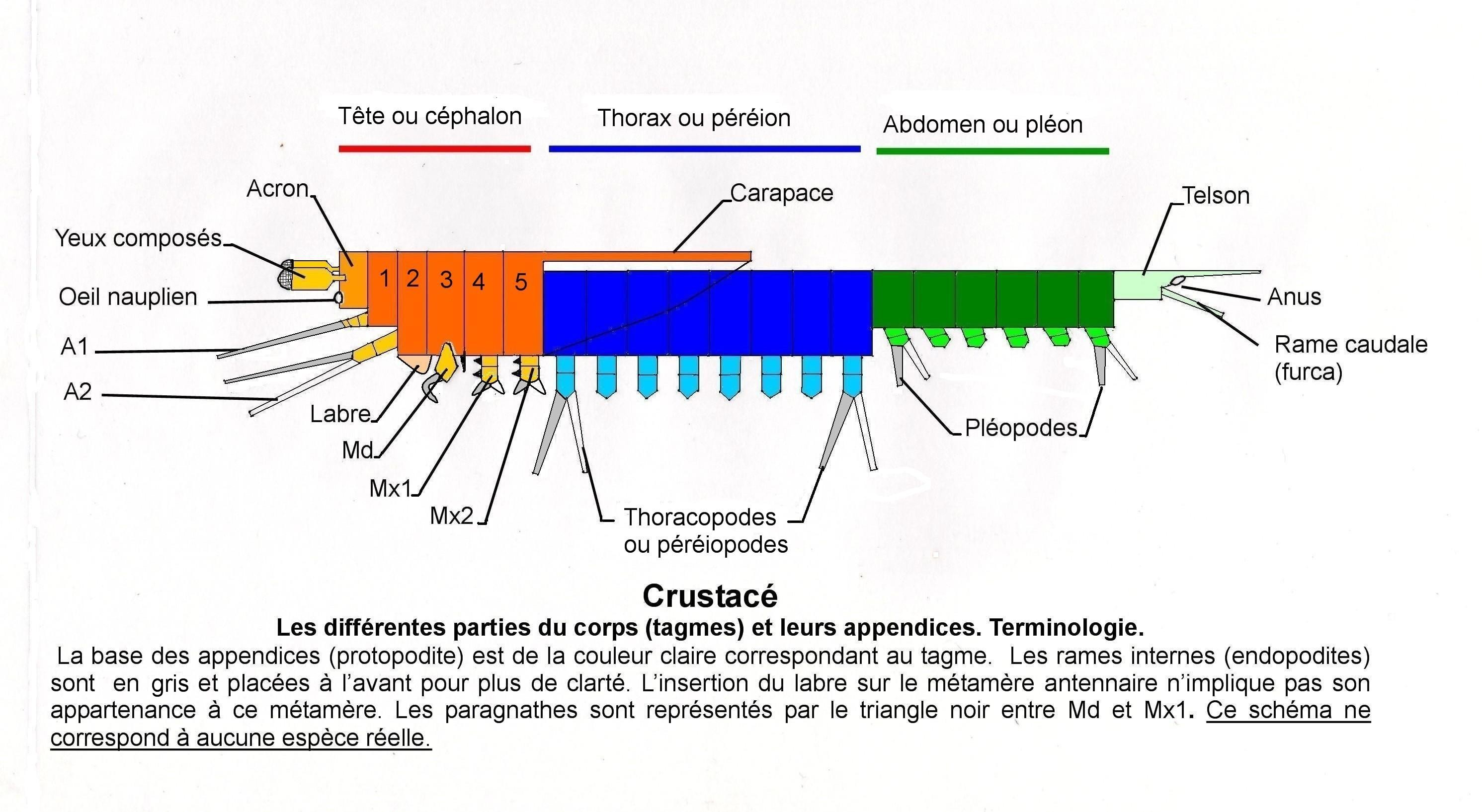 Crustacea. The different parts of the body and their appendices.